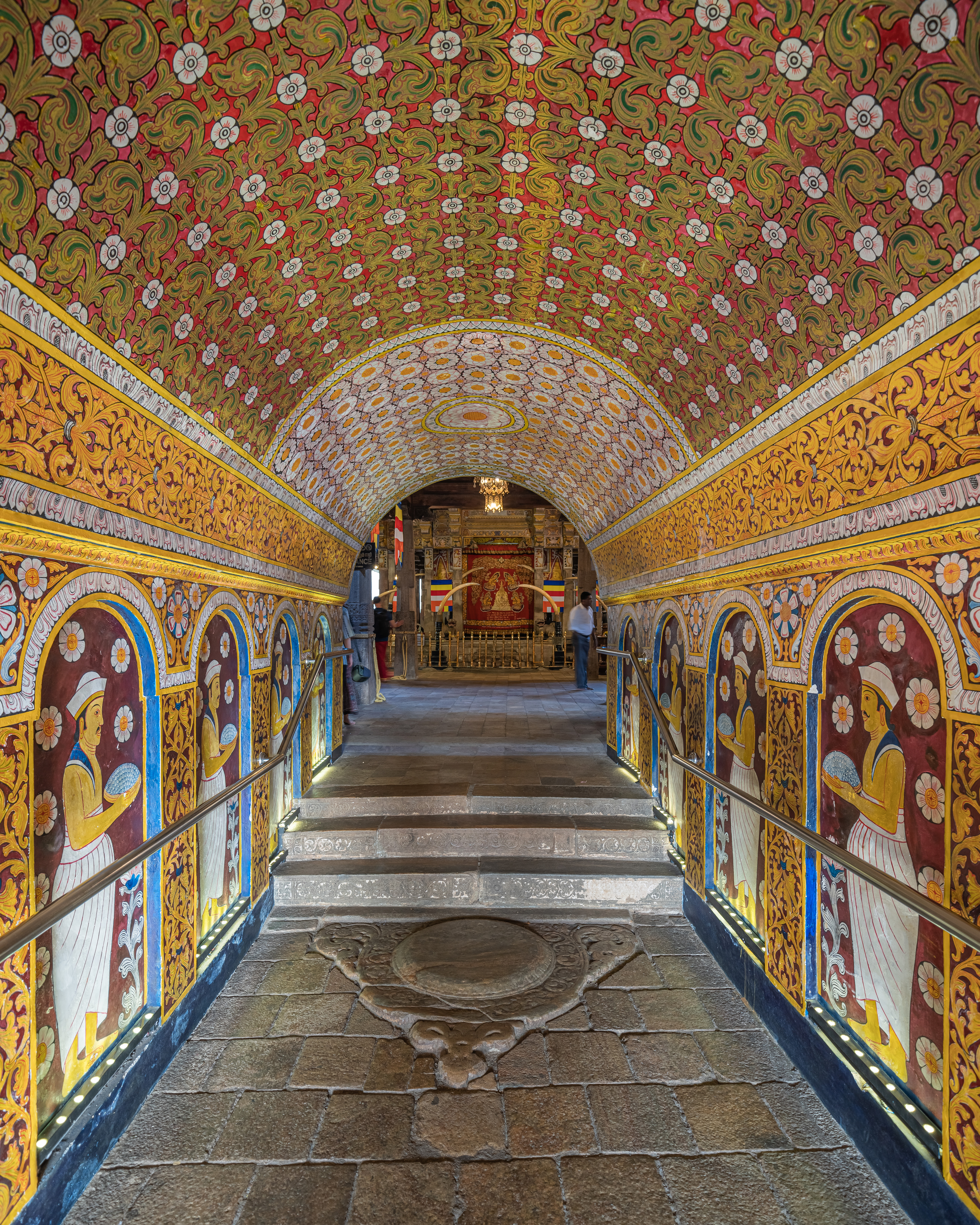 Sacred Tooth Temple in Kandy, Sri Lanka